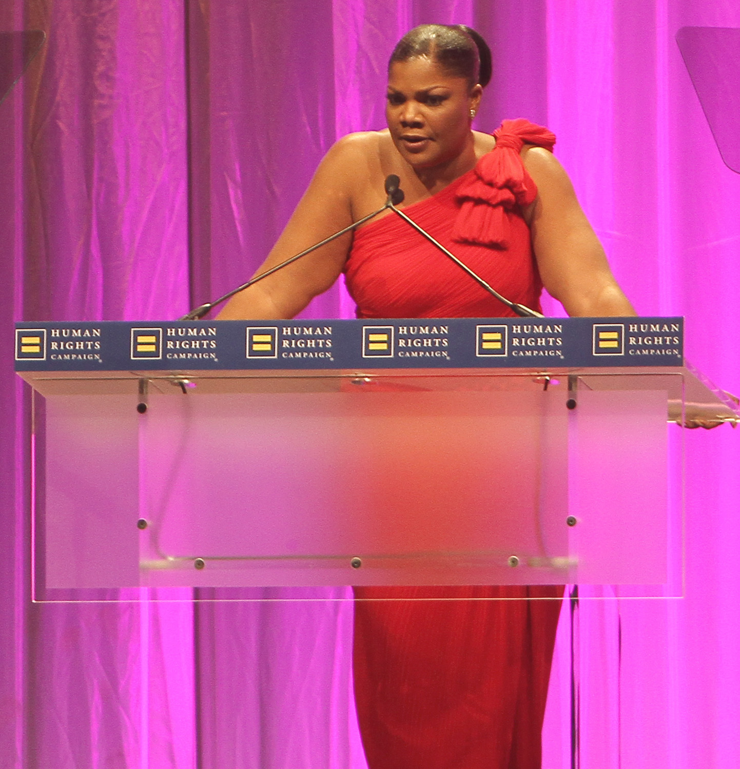 Mo'Nique at the 2010 HRC National Dinner